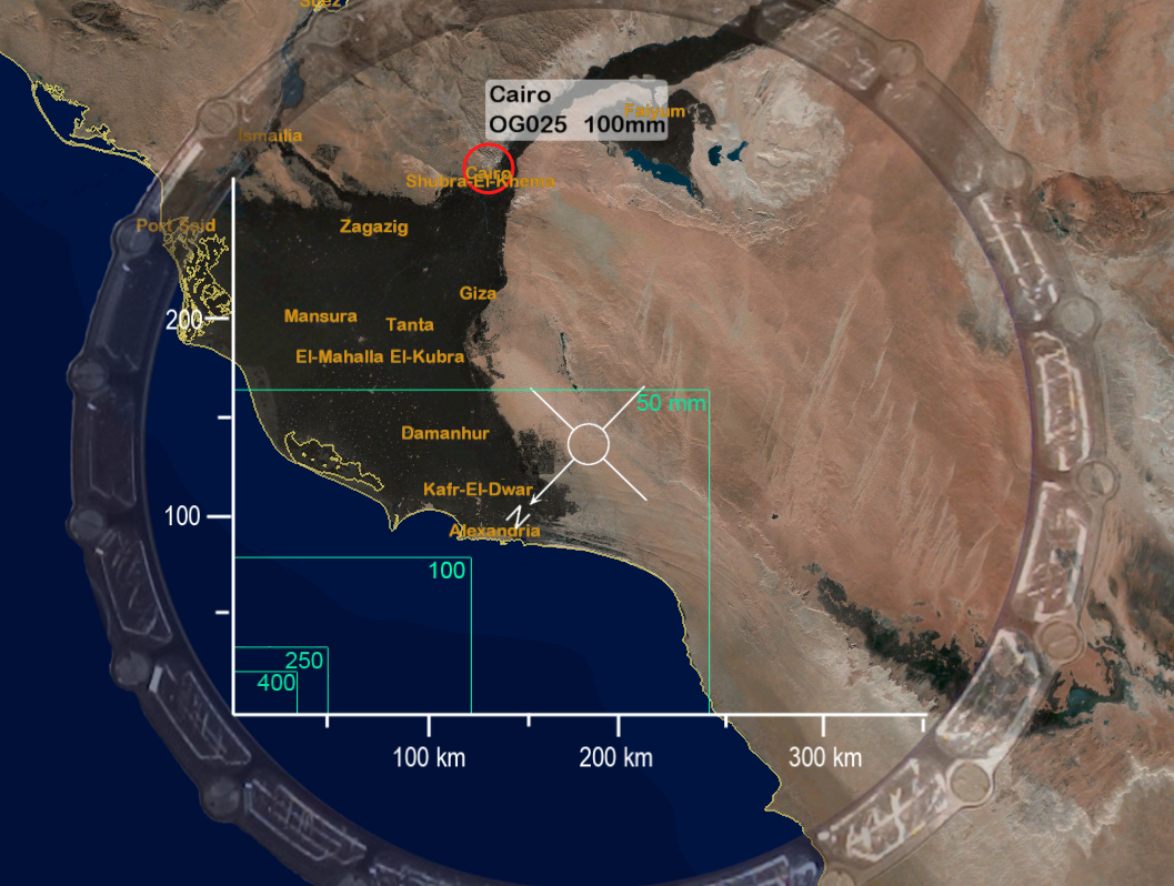 Graphic of a view from the Windows on Earth software, showing the Nile River delta, as seen from the International Space Station